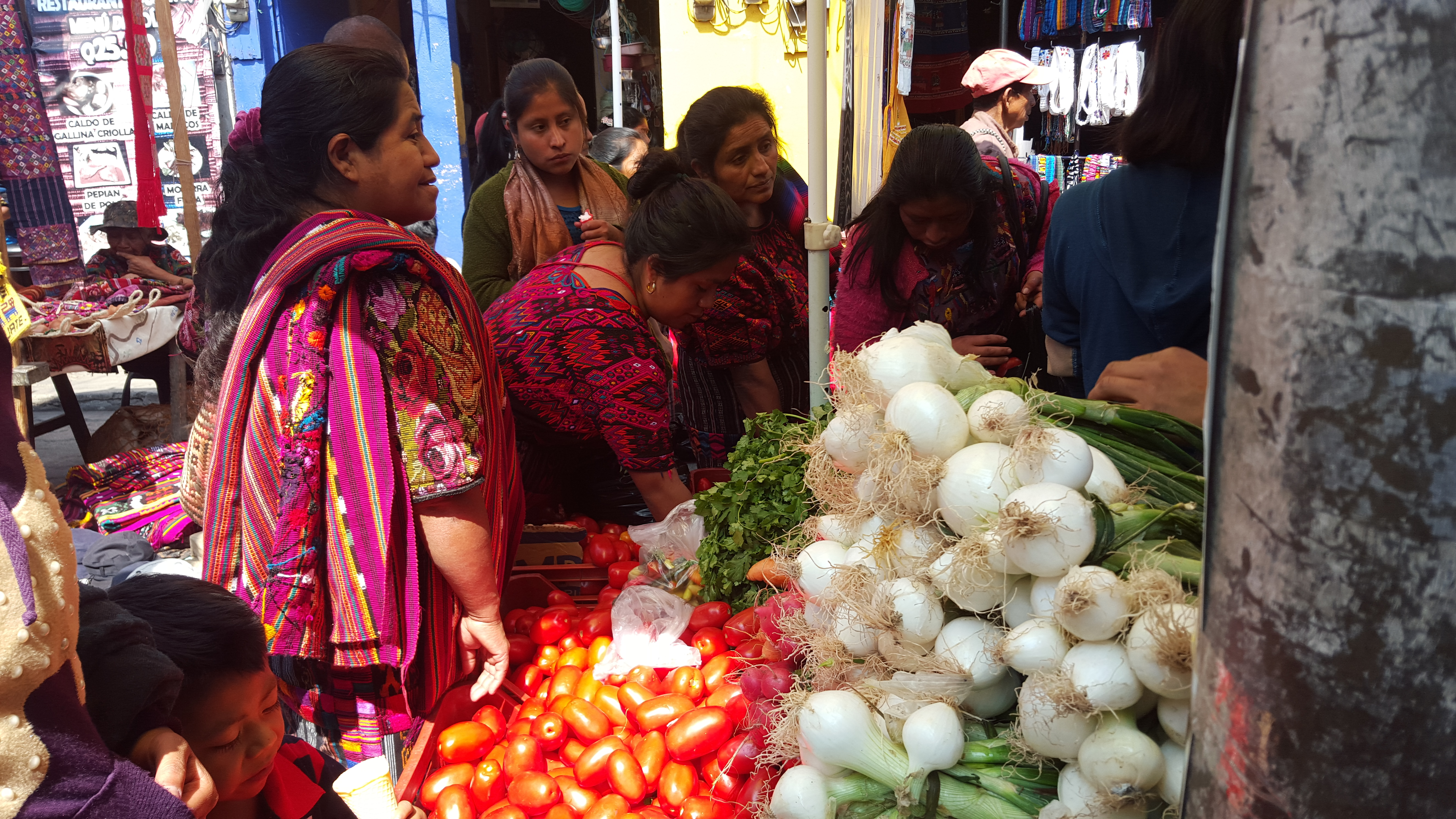 Indigenous Mayan Women at Chichicastenango Market